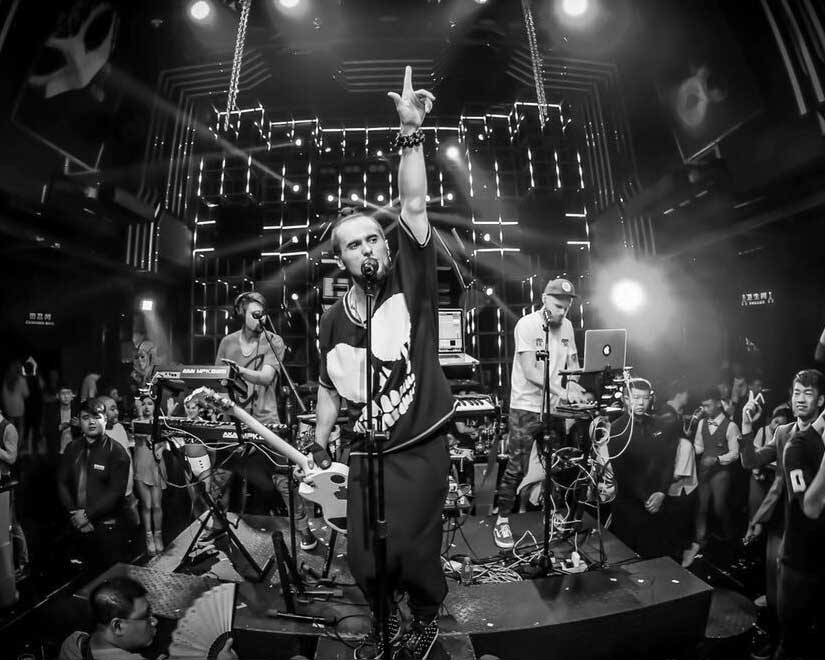 ROSTANY performing their live set in Guangzhou during their Electric Toys Show tour around China (Spring, 2017)